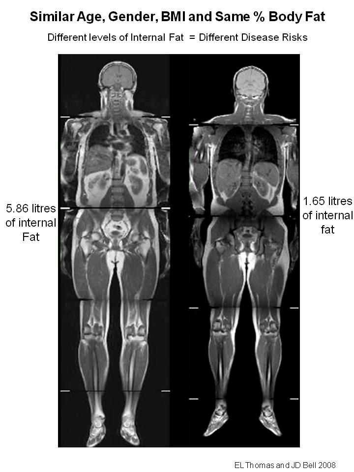 MRI Images showing different content of internal fat in two men of a similar size.